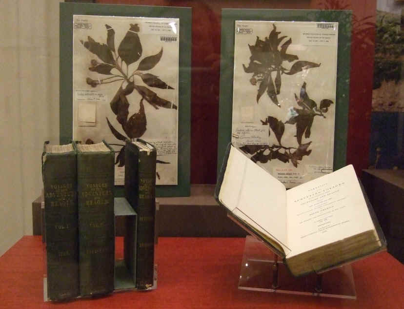 Narrative of the surveying voyages of His Majesty's ships Adventure and Beagle between the years 1826 and 1836 : describing their examination of the southern shores of South America and the Beagle's circumnavigation of the globe. Fitzroy, Robert, 1805-1865, ed. London : Henry Colburn, 1839. Held by the Cullman Library. From an exhibition by the Smithsonian Institution Libraries.